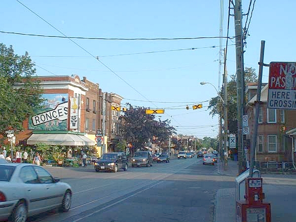 Roncesvalles Village, Toronto – looking south on Roncesvalles Ave.